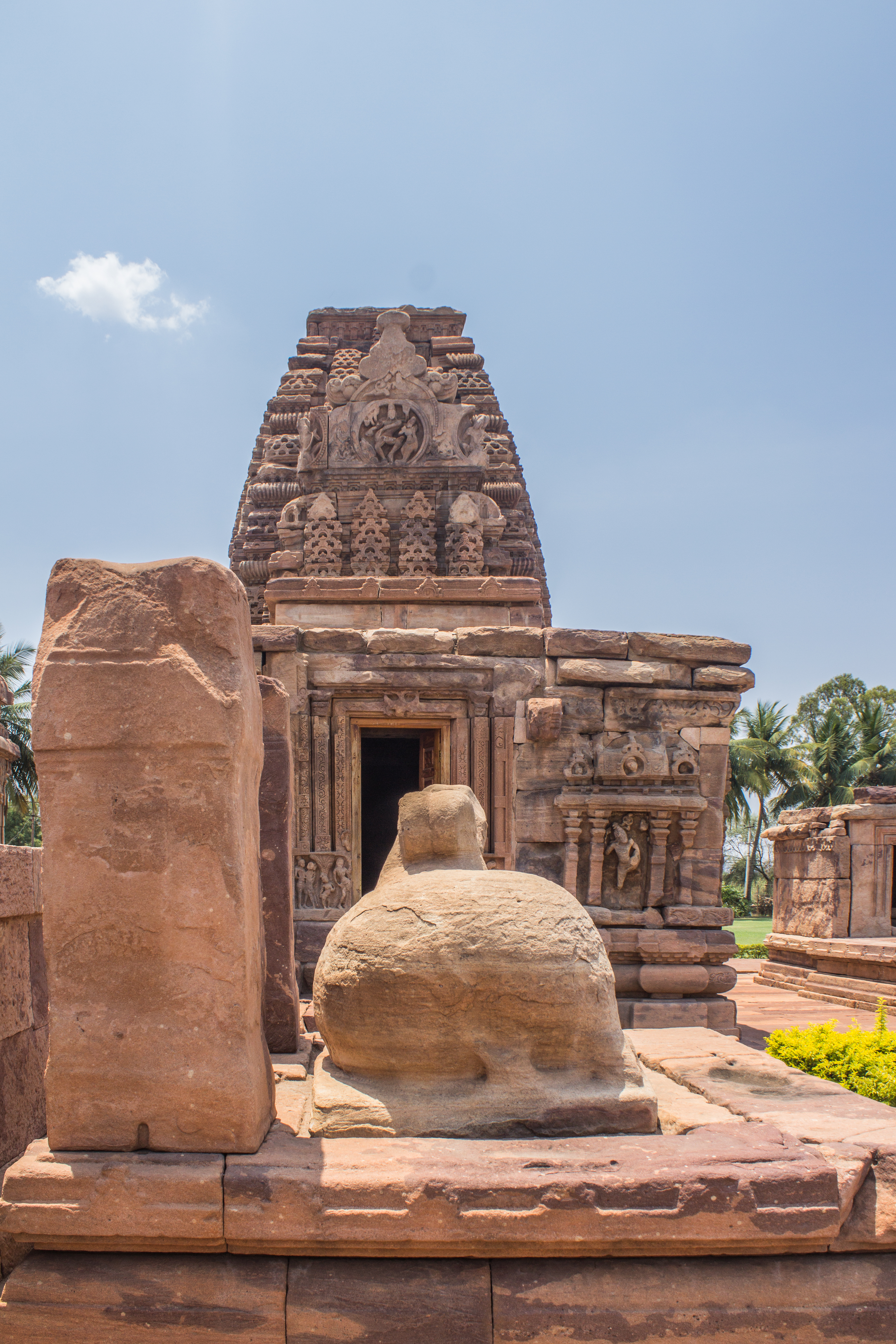 The Kasivisvanatha temple, Pattadakal